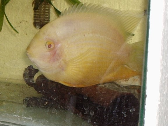 Heros severus (Cichlasoma severum) "Gold"